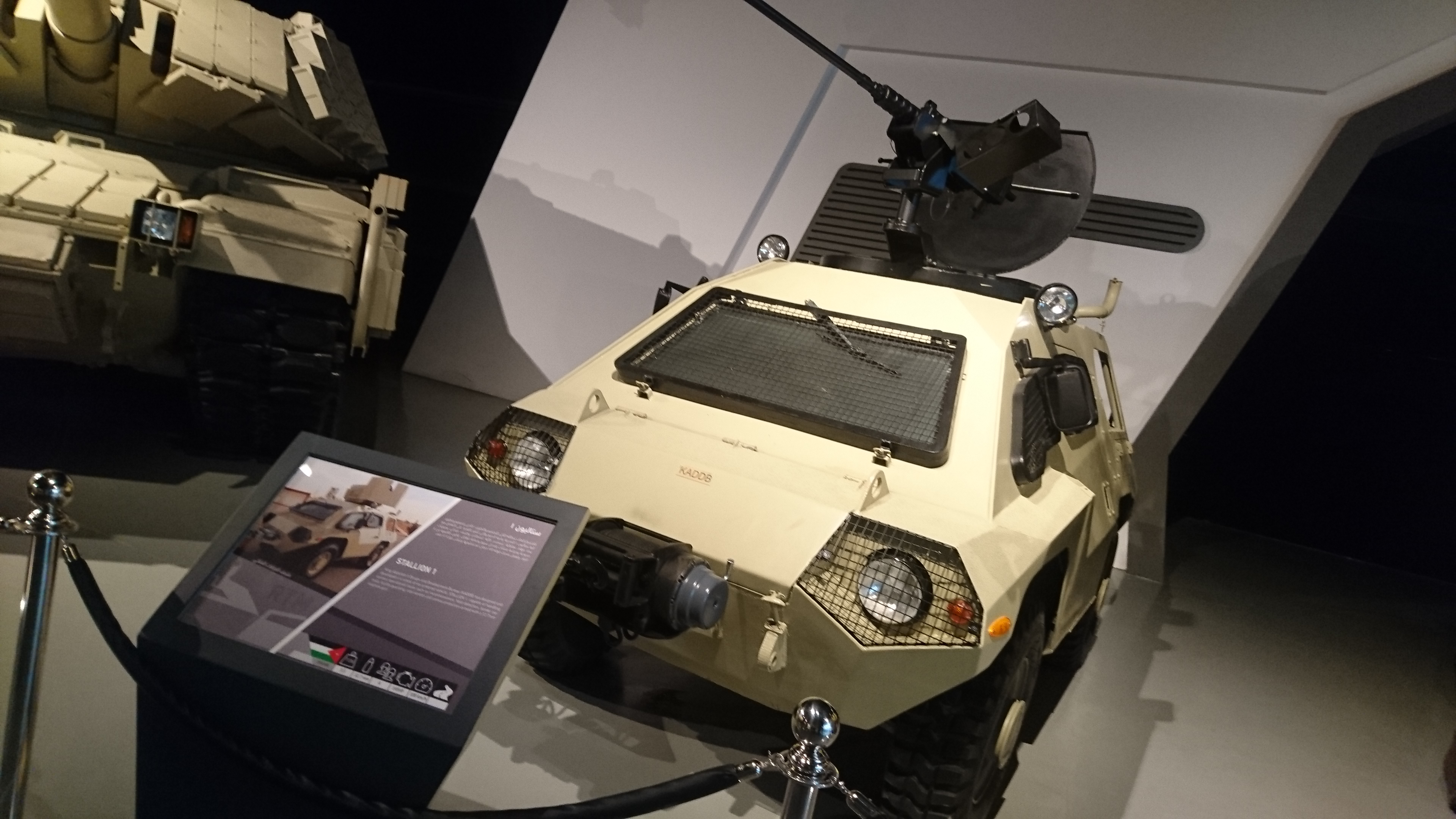 KADDB Stallion, Royal Tank Museum